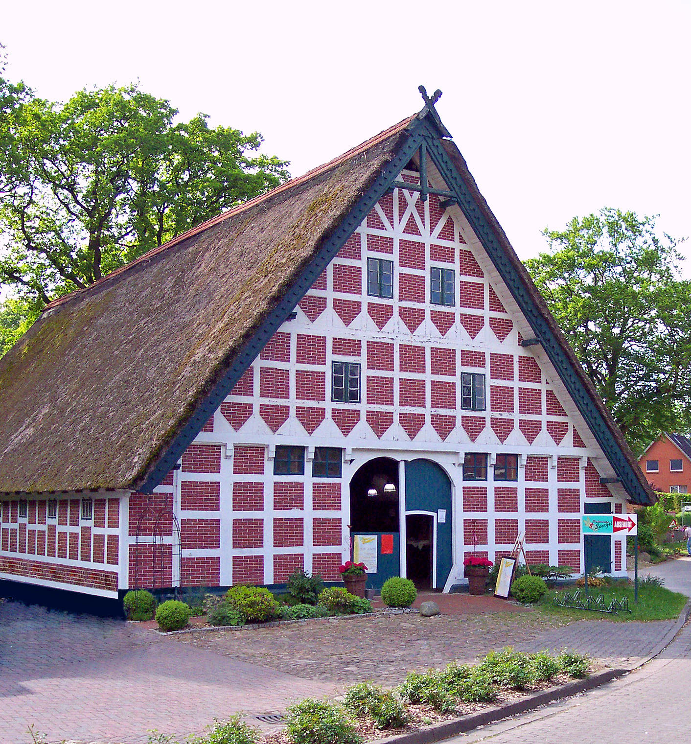 Hof des Bliedersdorfer Spargelverkaufs - Old farm building as the retail store for the local asparagus in Bliedersdorf